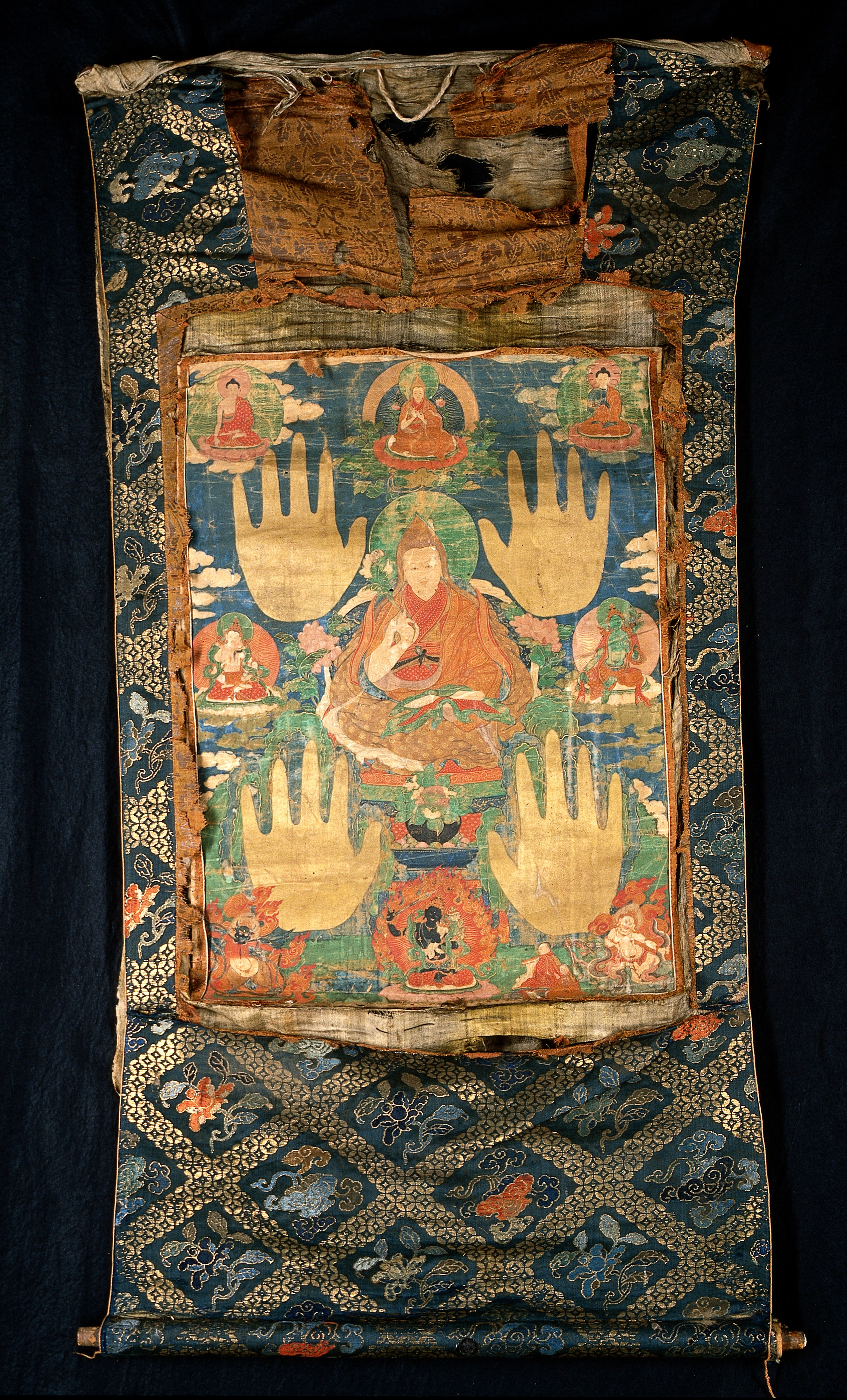 The third Dalai Lama Sonam Gyatso (1543-1588) and his entourage. Gouache painting. Iconographic Collections